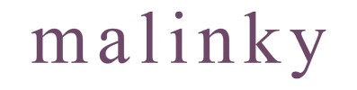 Logo of Scottish folk group Malinky.